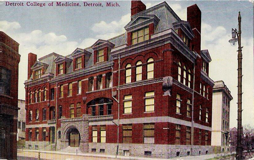 Postcard picture of Detroit College of Medicine, postmarked 1911. Formerly on Woodward Avenue, Detroit, Michigan. Present day Wayne State University School of Medicine (new buildings).